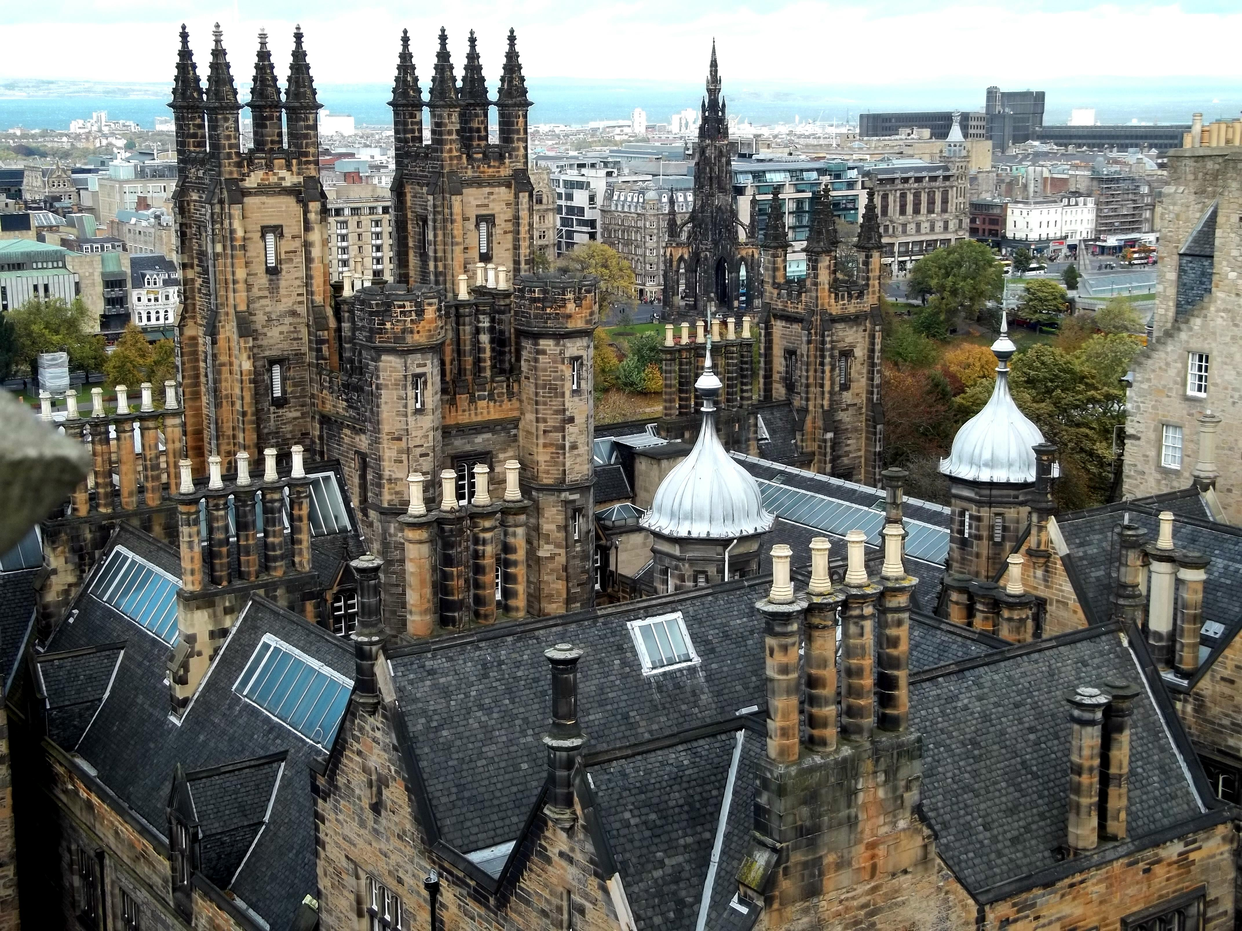 New College